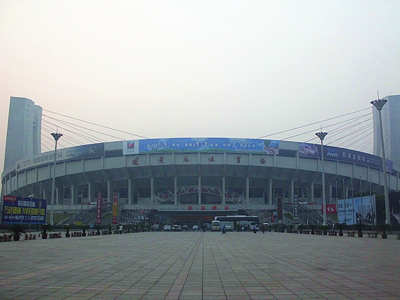 Yellow Dragon Stadium